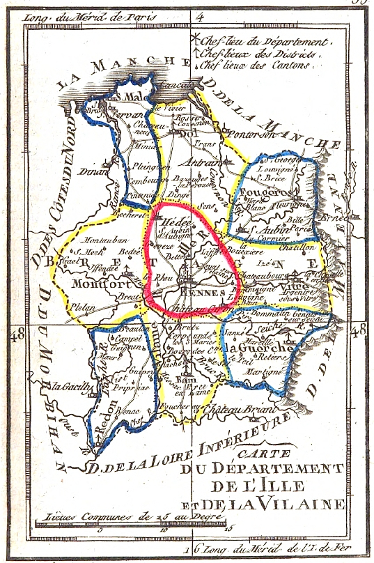 Map of Departement of Ille-Vilaine, centered on Rennes (Brittany)